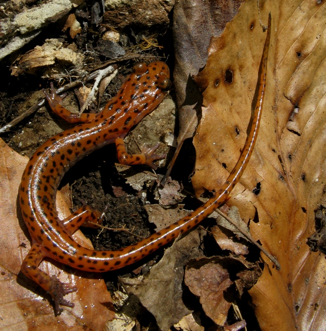 Cave salamander (Eurycea lucifuga)